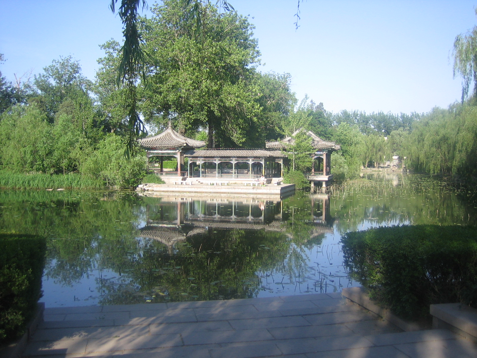 The Tsinghua University campus in Beijing